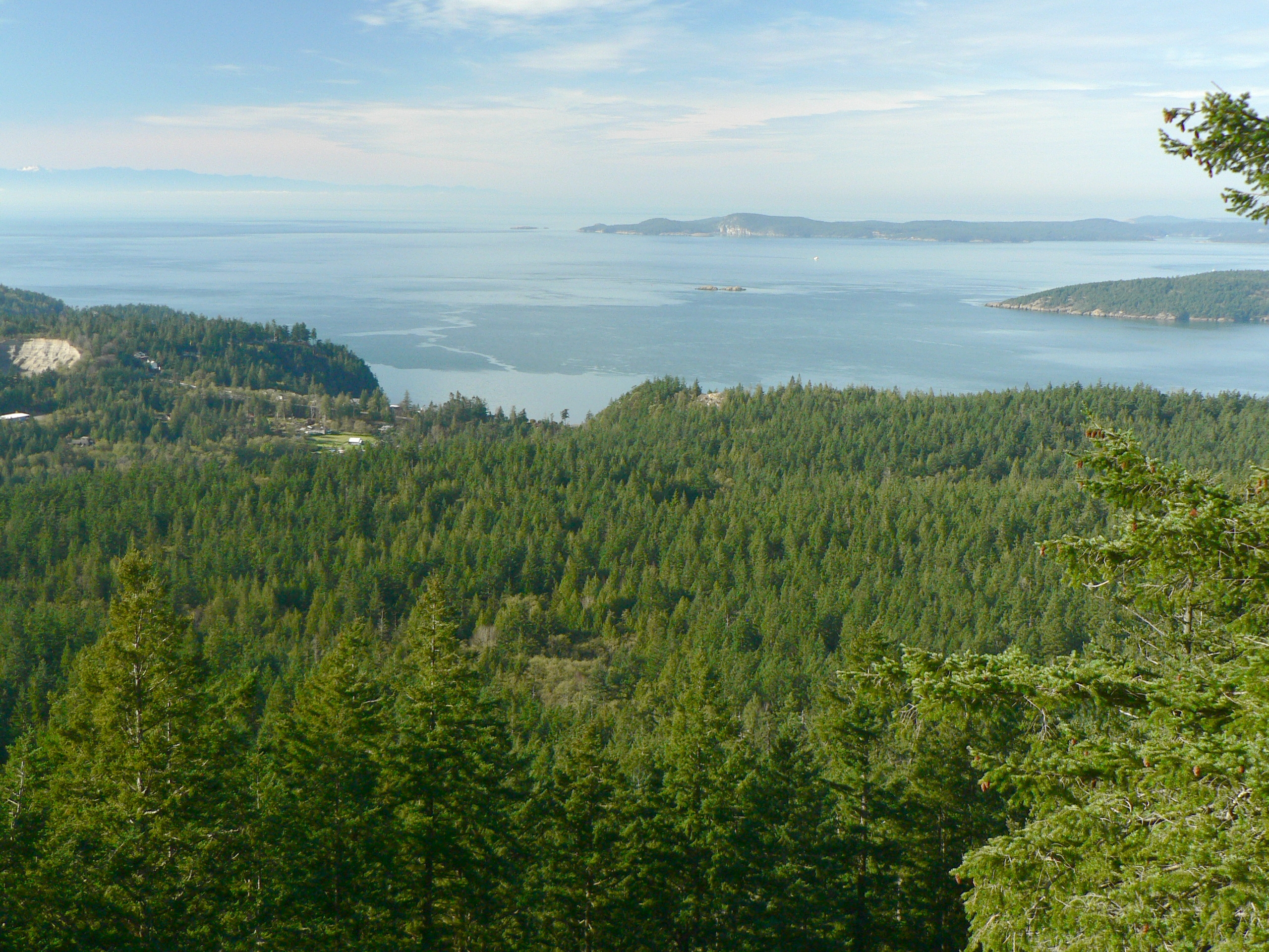 Fidalgo Island Burrows Bay, Allan Island (right), Lopez Island (behind), and Olympic Mountains (upper left)